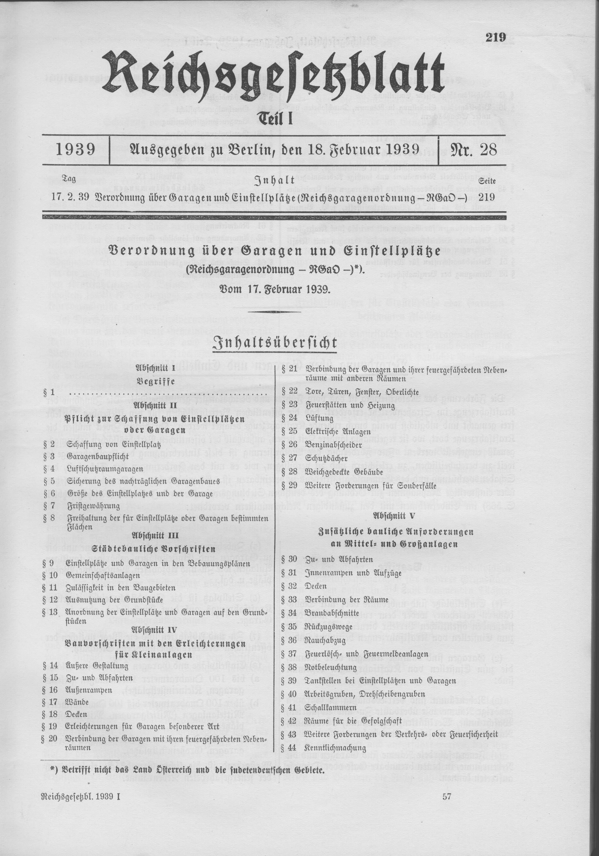 Scan from the Imperial Law Gazette of Germany, 1939, part 1